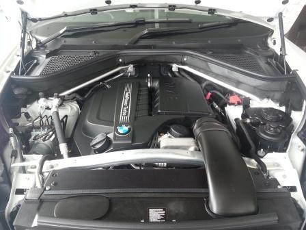 BMW N55 engine on X6